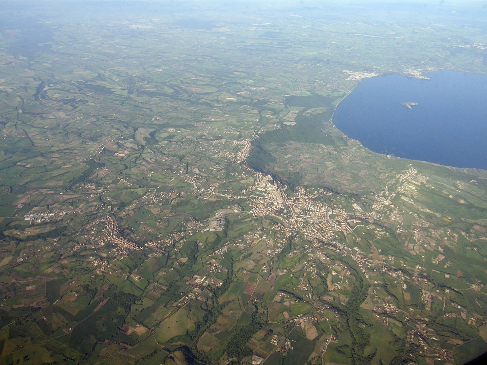 Aerial photographs of Italy